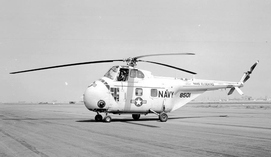 From NAAS El Centro, photographed at NAS Miramar in August 1957.